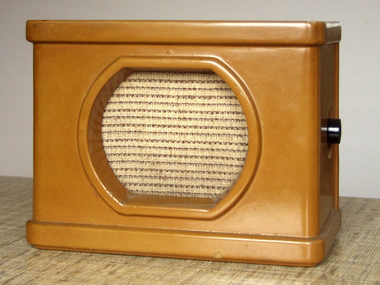 Loudspeaker GD-16,5/2 – Poland – 1957